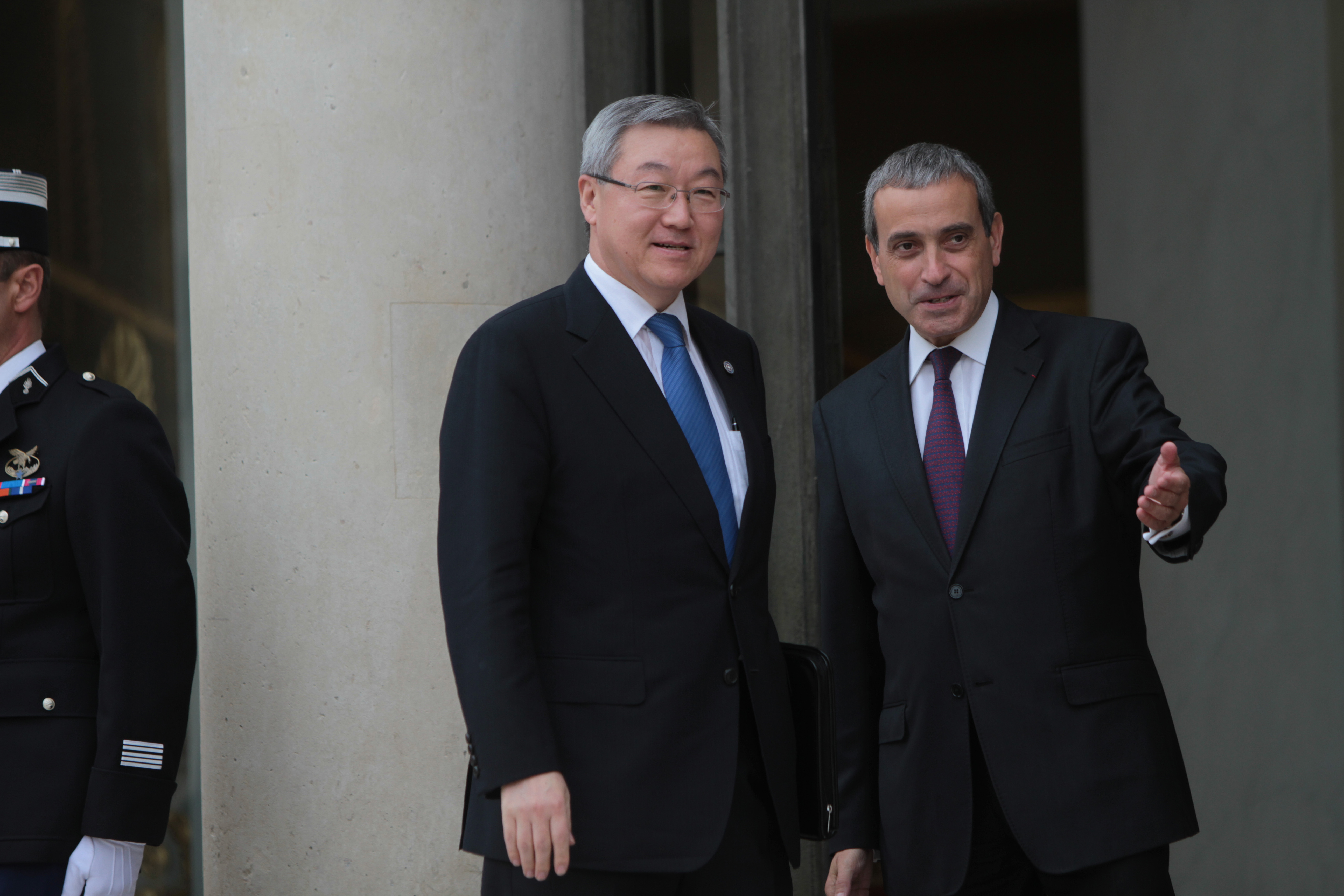 International Conference in Support of the New Libya, September 1, 2011.